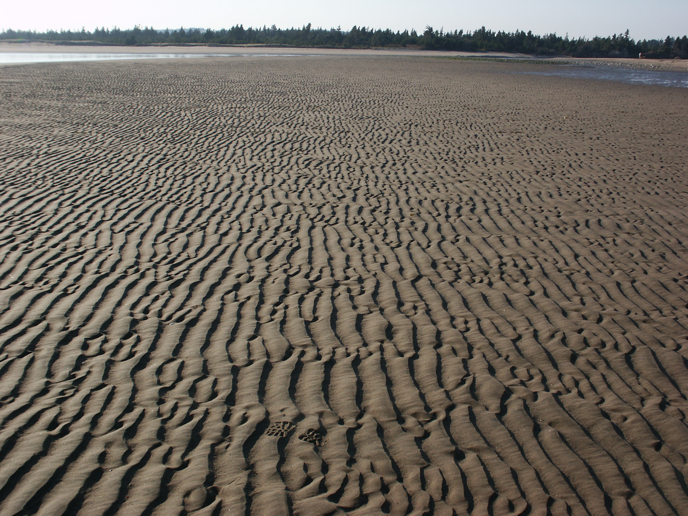 Modern asymmetric ripples. exposed in the intertidal zone near Lawrencetown, Nova Scotia. Flow was from left to right.